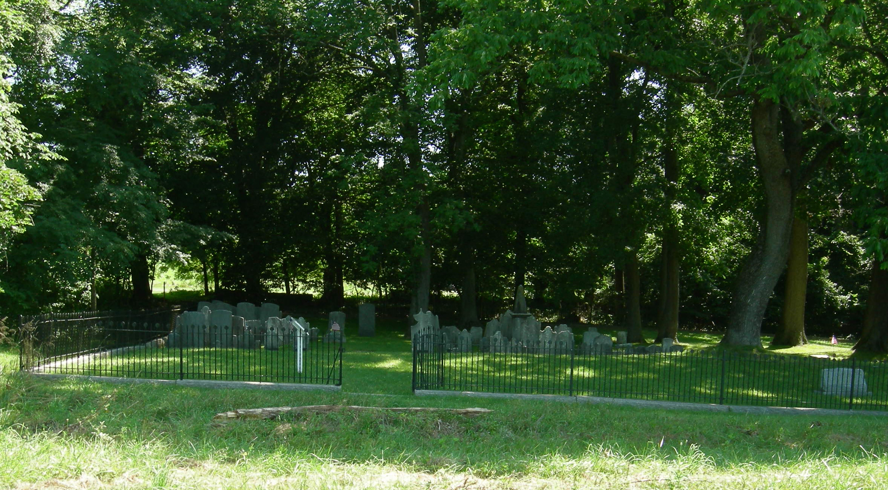 Free Quaker - Wetherill Cemetery, Audubon, Lower Providence Township, Pennsylvania.